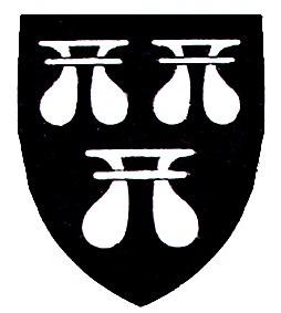 Arms of Lilburn variation: Sable, three bougets argent, as shown on the seal of John Lilburn of Shawdon (1900), whose shield is blasoned in Powell's role of Edward III. The Elizabethan roll blasons for them Argent, three bougets gules